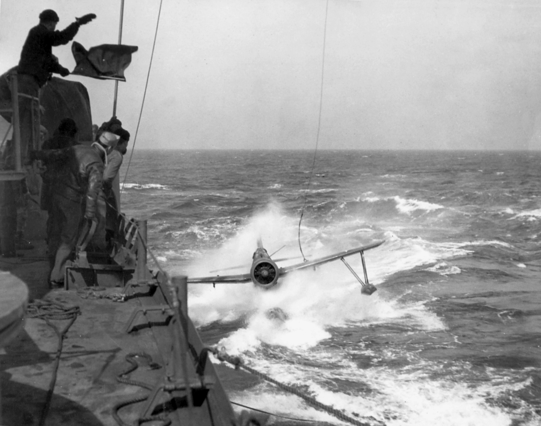 A U.S. Navy Vought OS2U Kingfisher taxis towards the recovery sled for recovery by the battleship USS South Dakota (BB-57) in April 1943. Note the signalman with flags on board the ship. South Dakota was operating in the North Atlantic at that time.